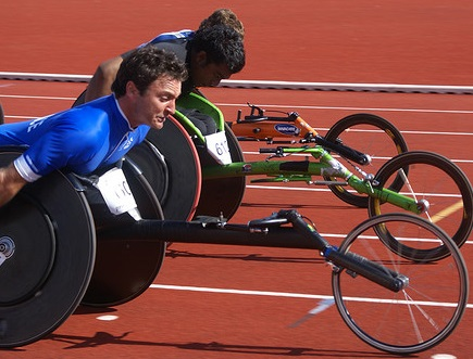 The wheelchair race at 2006 IPC Athletics World Championships.